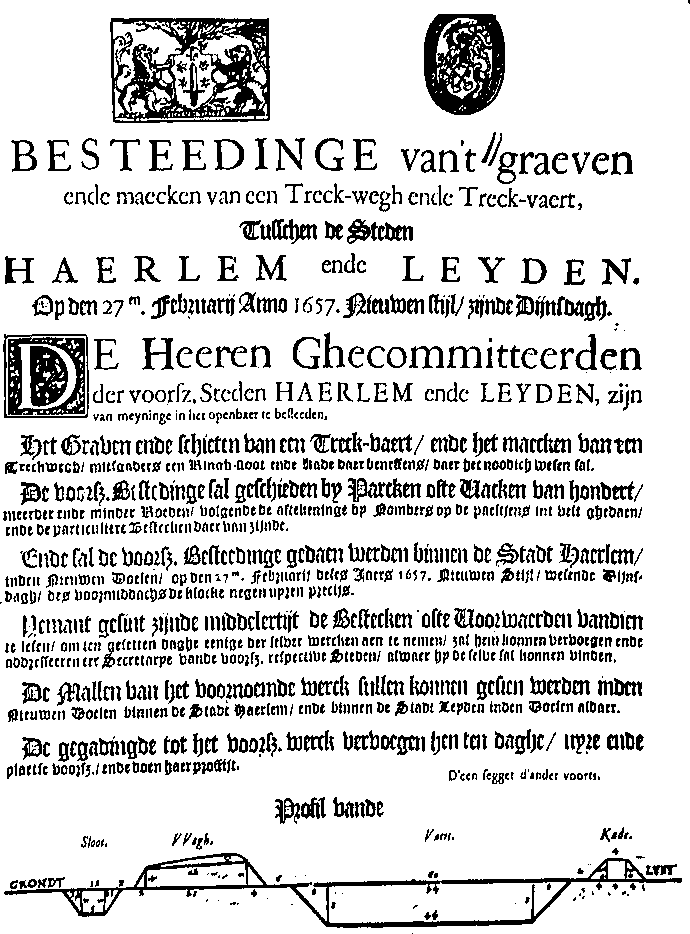 Scan of "aanbestedingsdocument" for the Haarlemmertrekvaart